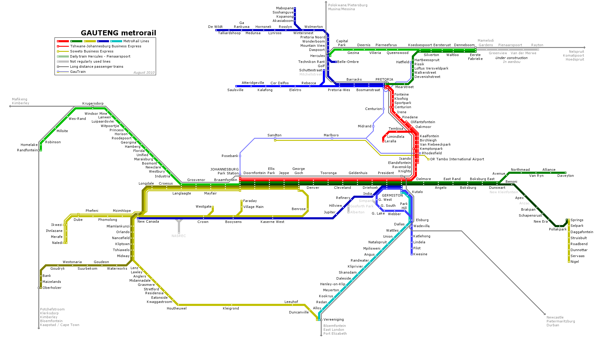 Map of the Metrorail Witwatersrand and Pretoria regions